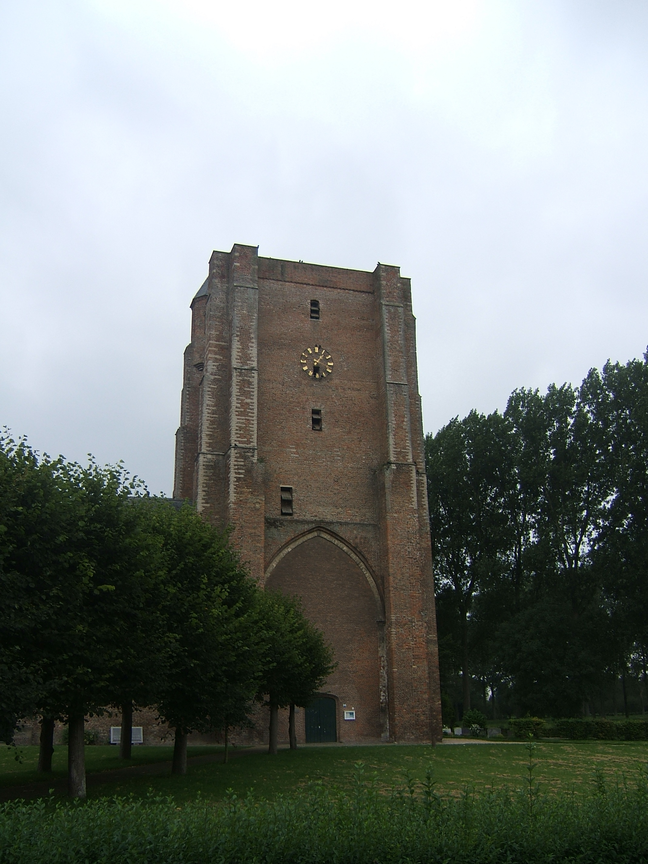 The gothic church tower in the village Sint Anna ter Muiden